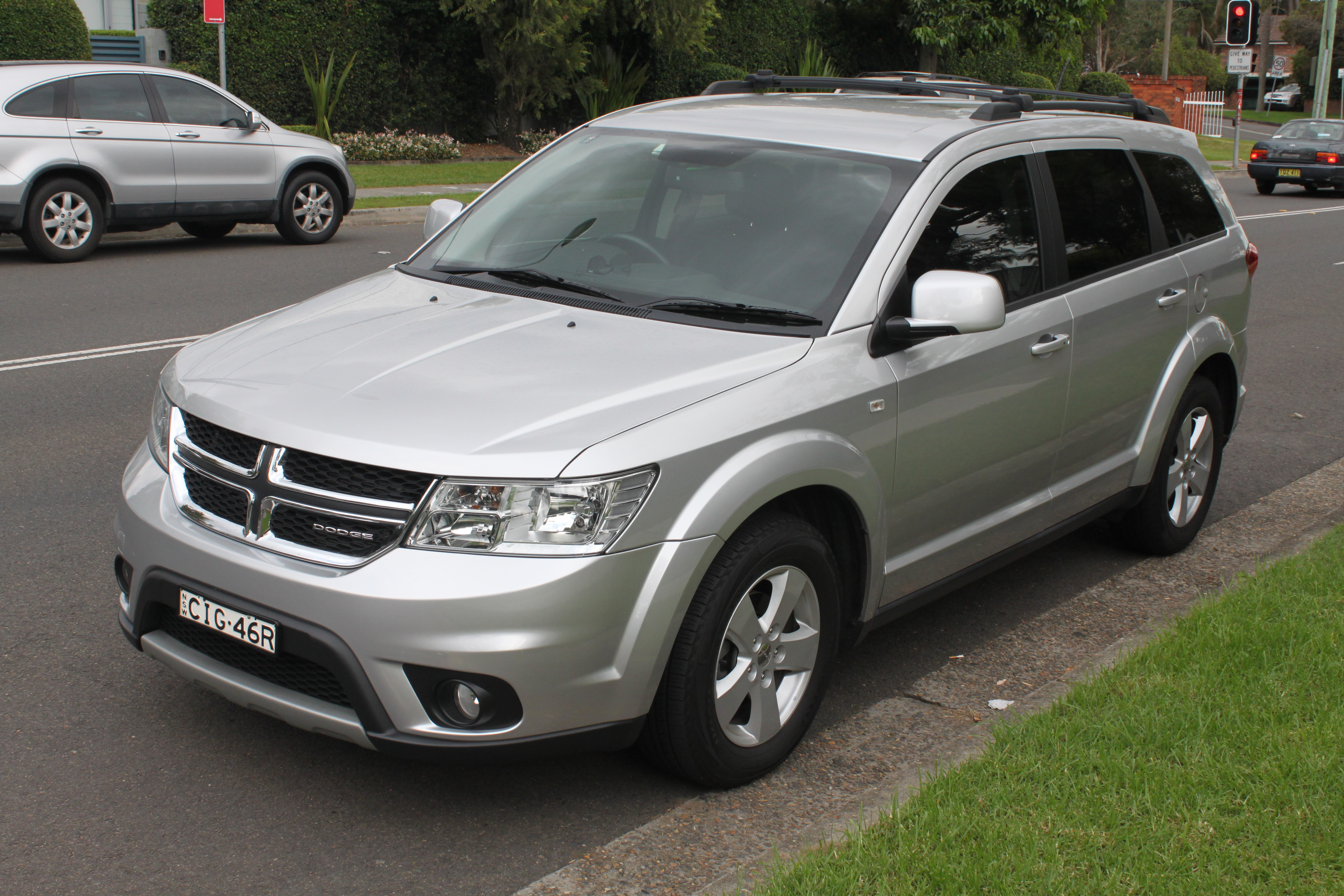 Dodge Journey JC SXT